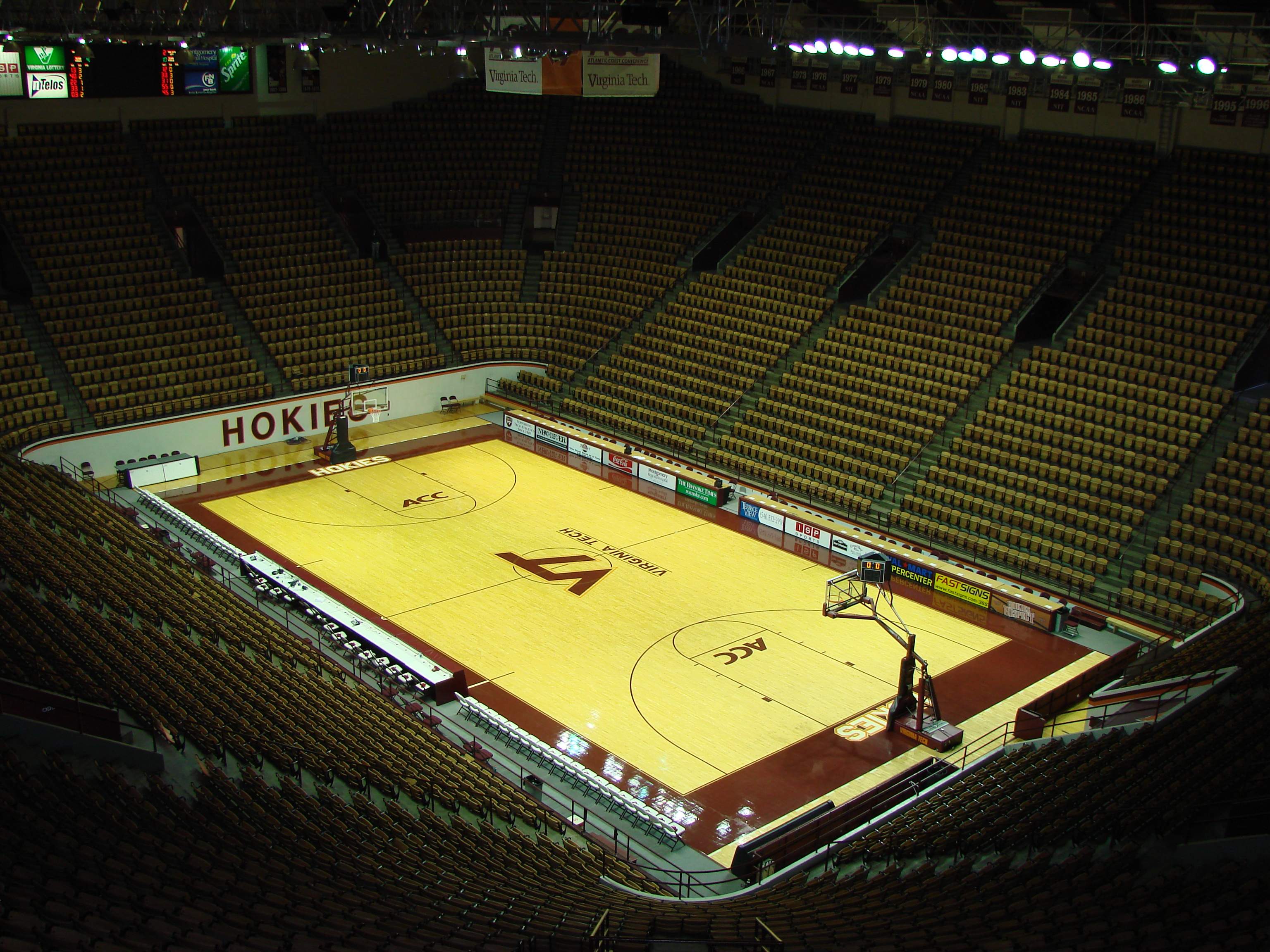 Justin Cates, Planet Blacksburg, February 2007